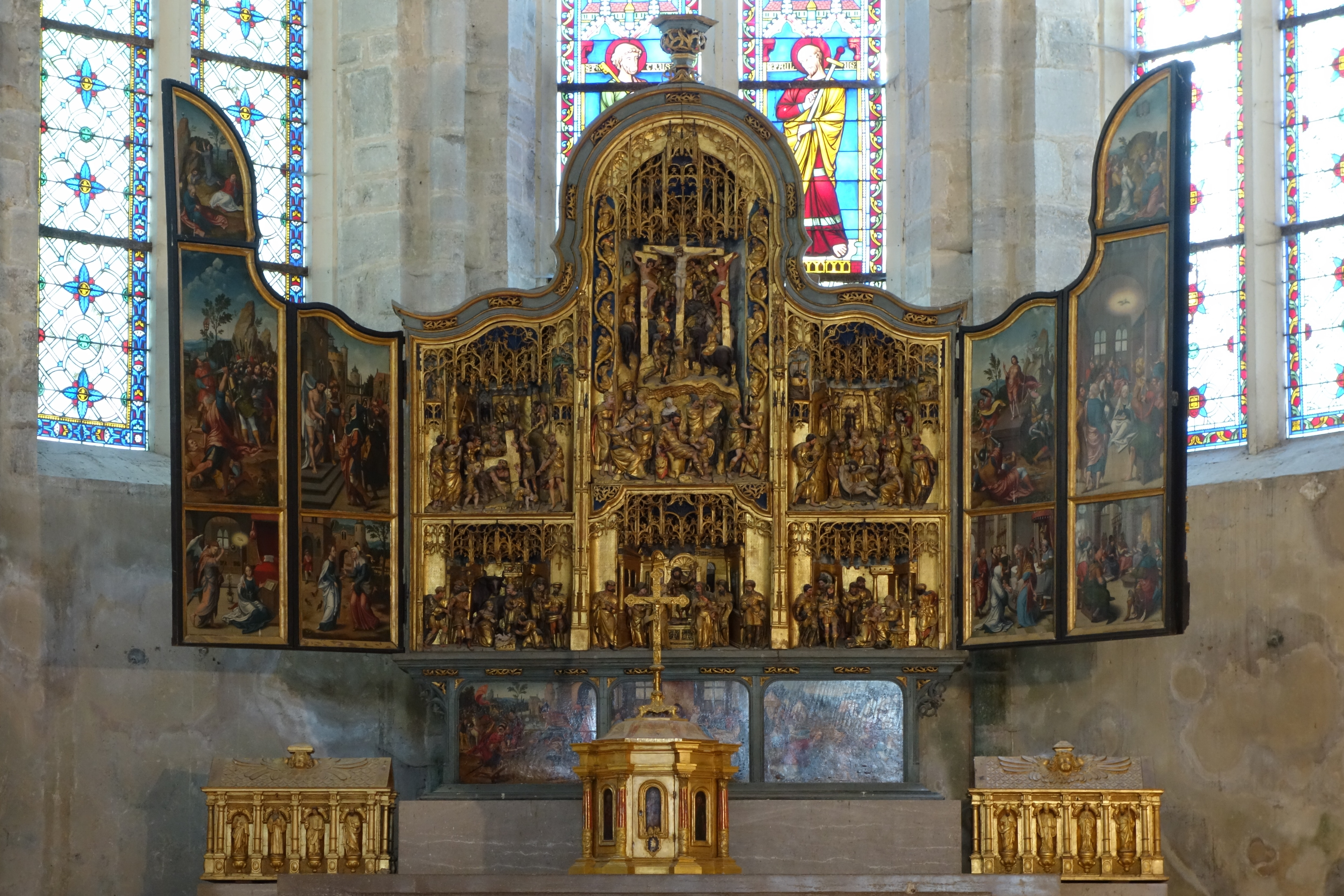 Sixteenth-century retable of the church of the Baume Abbey in Jura, France.